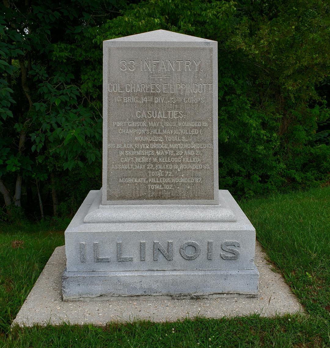 33rd Illinois Volunteer Infantry Regiment Monument at Vicksburg National Military Park. Photo taken 2019